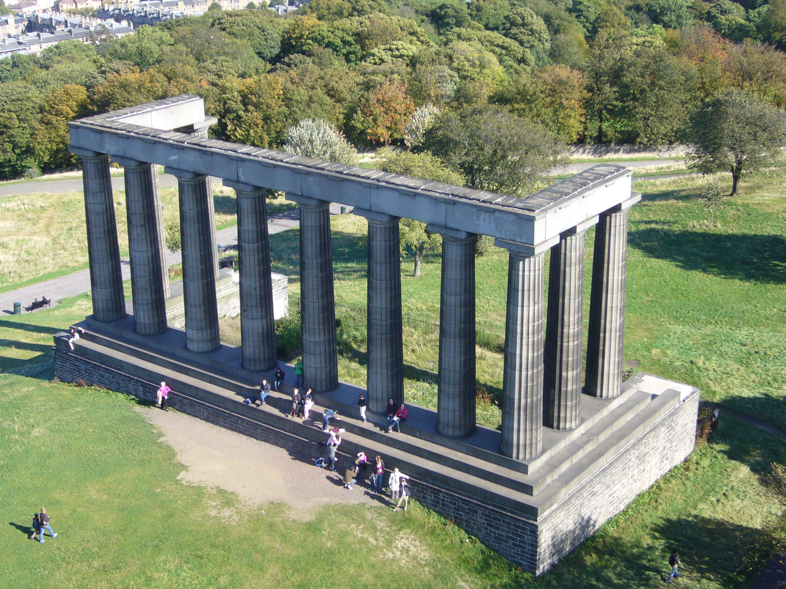 The unfinished monument to the Scottish dead of the Napoleonic Wars has often been described as 'Edinburgh's disgrace'. The intention was to build a church which would be a replica of the Parthenon in Ancient Athens, but the money ran out.